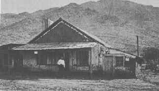 Charles P. "Chuck" Stanton standing in front of his home/store in Stanton, Arizona, sometime before his death in 1886.